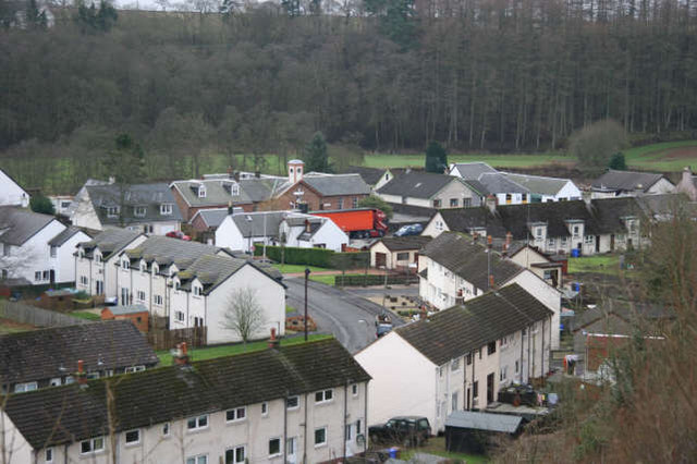 Local-authority built housing of the 1950s in Sorn, East Ayrshire. The building with the cream-coloured tower is the primary school.